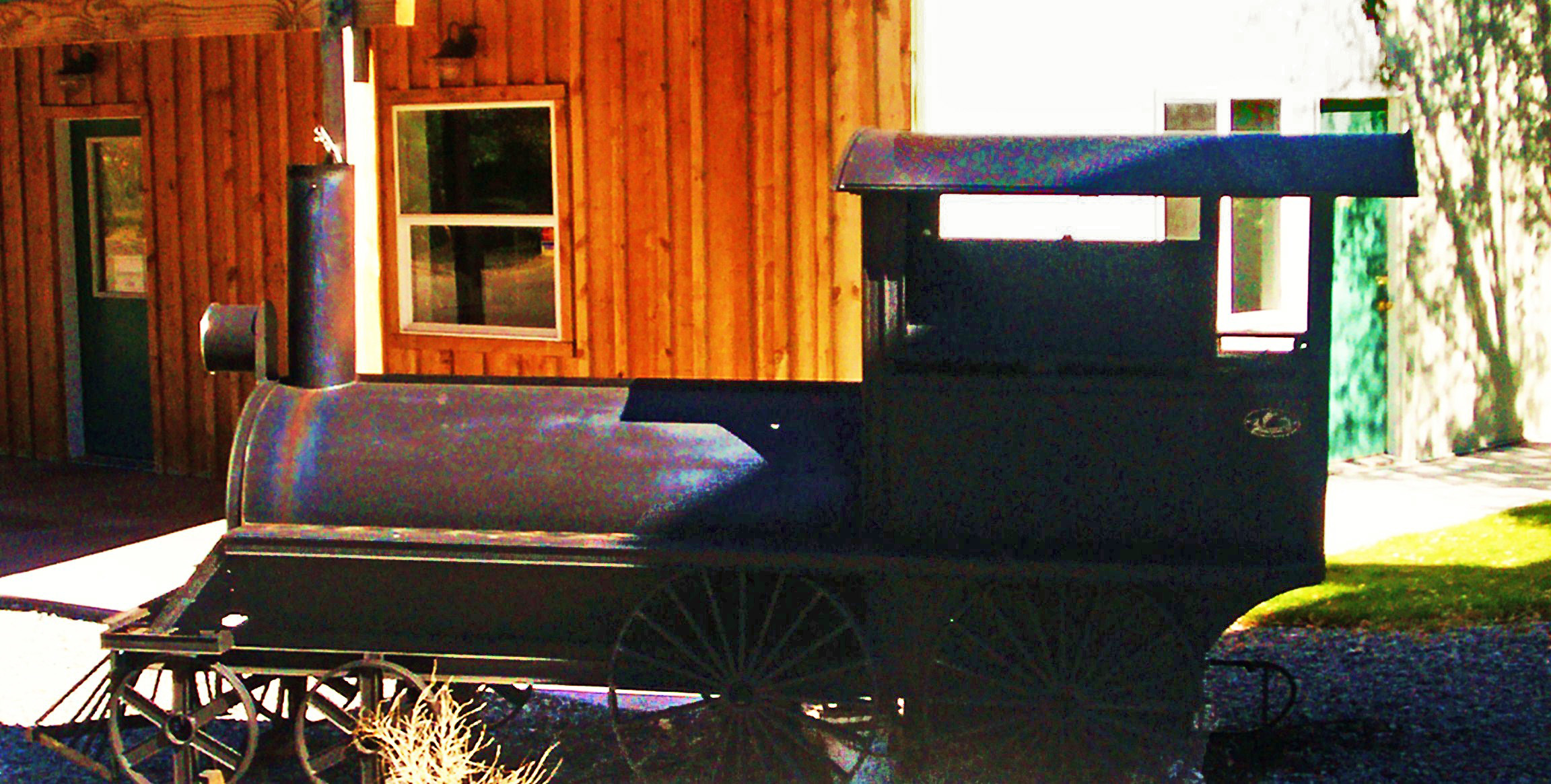 Early 19th Century locomotive in Ely, Nevada